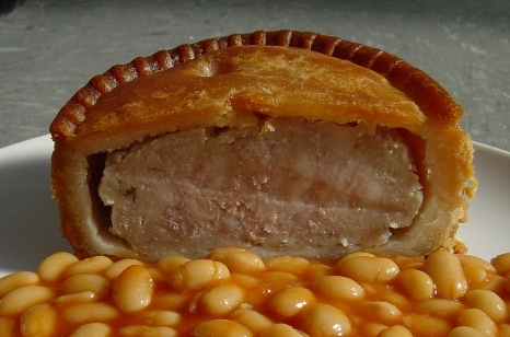 Melton Mowbray pork pie with baked beans